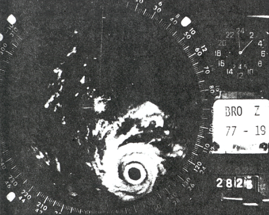 Hurricane Anita near its Mexican landfall